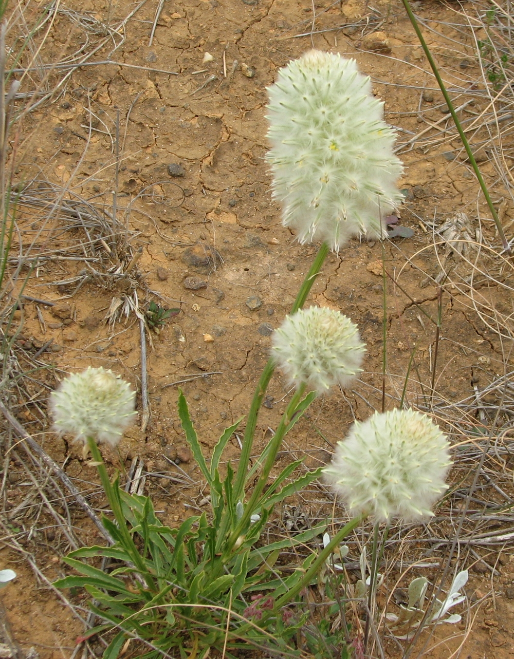 Ptilotus macrocephalus, near Rokewood Junction, Victoria, Australia